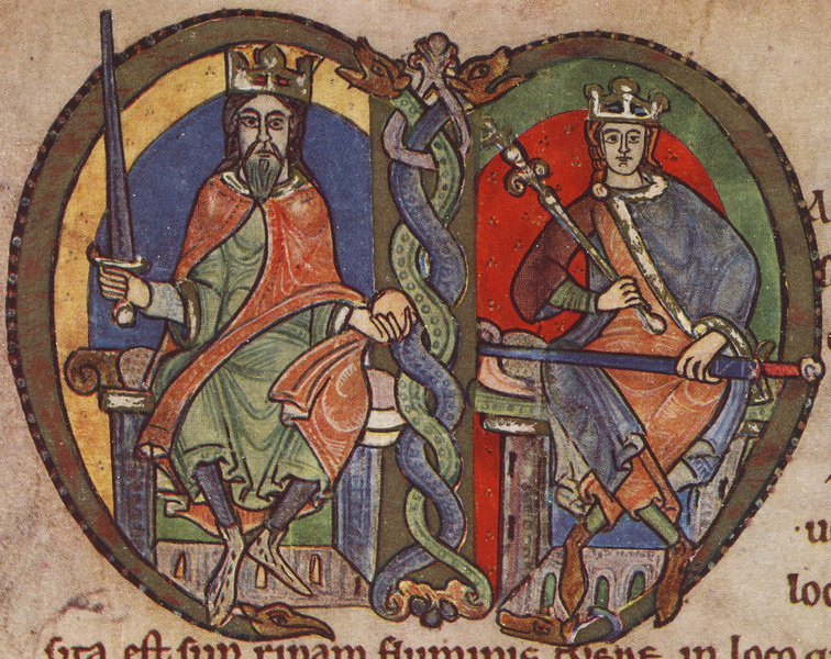 Detail from the charter of Malcolm IV, King of Scotland to Kelso Abbey.